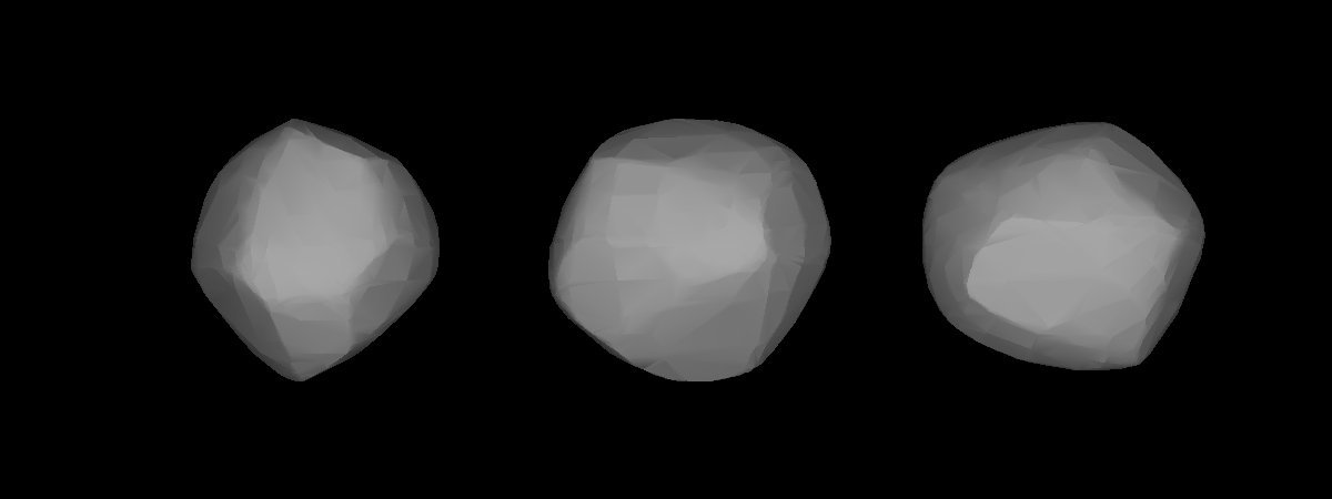 Three-dimensional model of 18 Melpomene created using light-curve inversions.